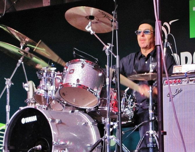 Drummer Anton Fig performing live with Stax.